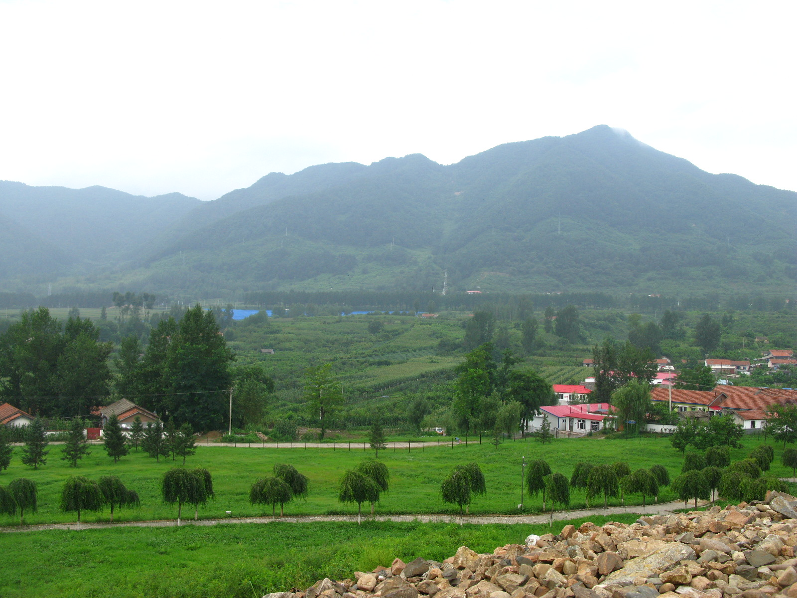 Ji'an countryside